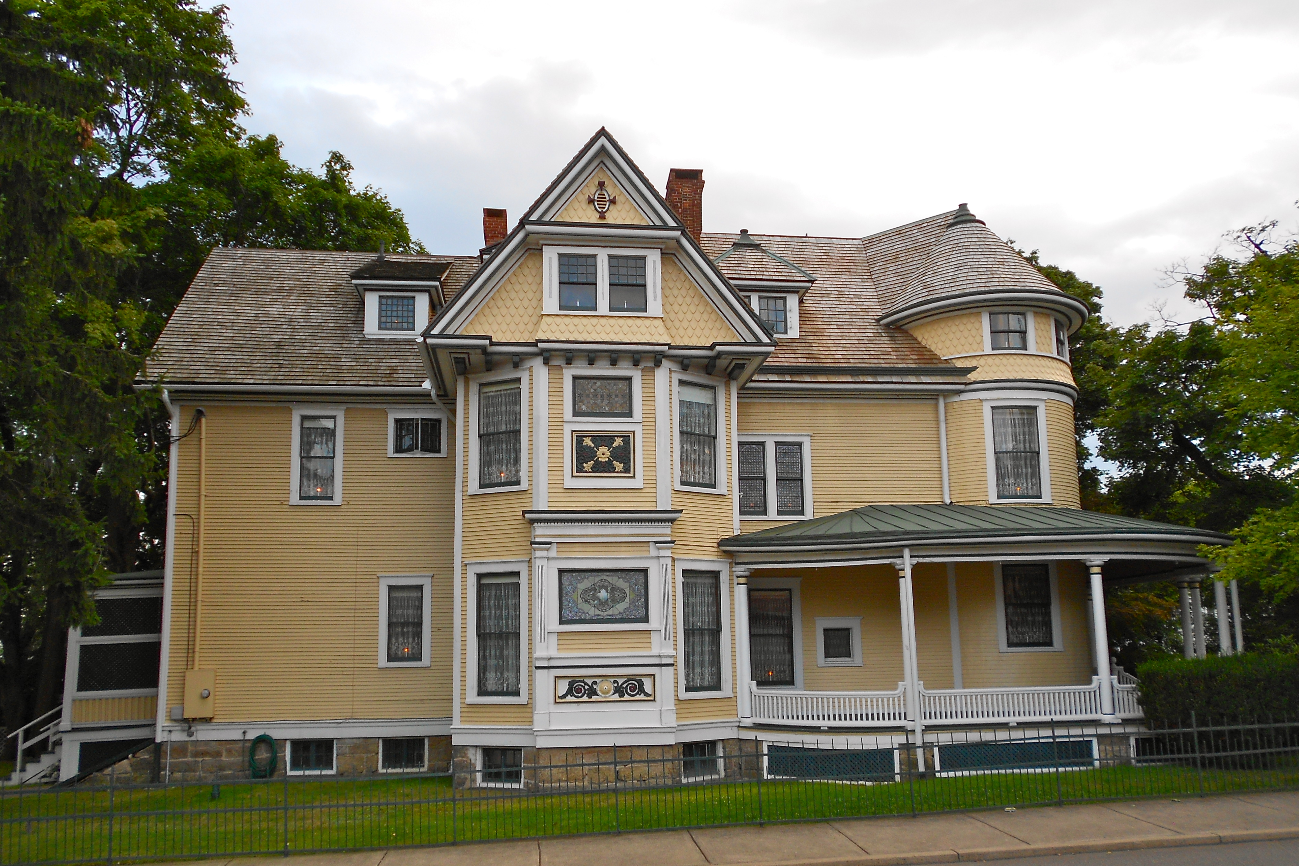 Israel Platt Pardee Mansion on the NRHP since January 12, 1984.At 235 North Laurel Street and 28 Aspen Street (carriage house) in Hazleton, Luzerne County, Pennsylvania. Designed by architect George Franklin Barber